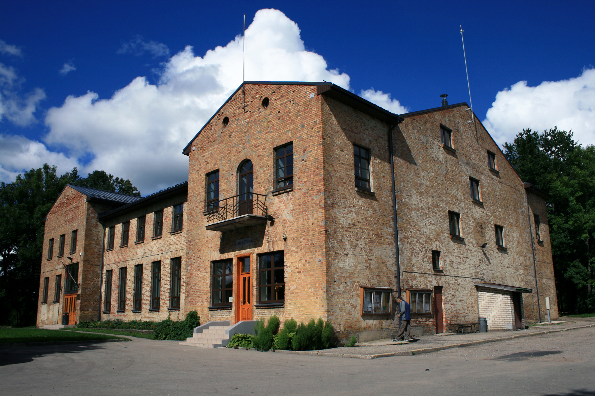 Bārta Parish administration buildingLatviešu: Bārtas pagasta pārvaldes ēka